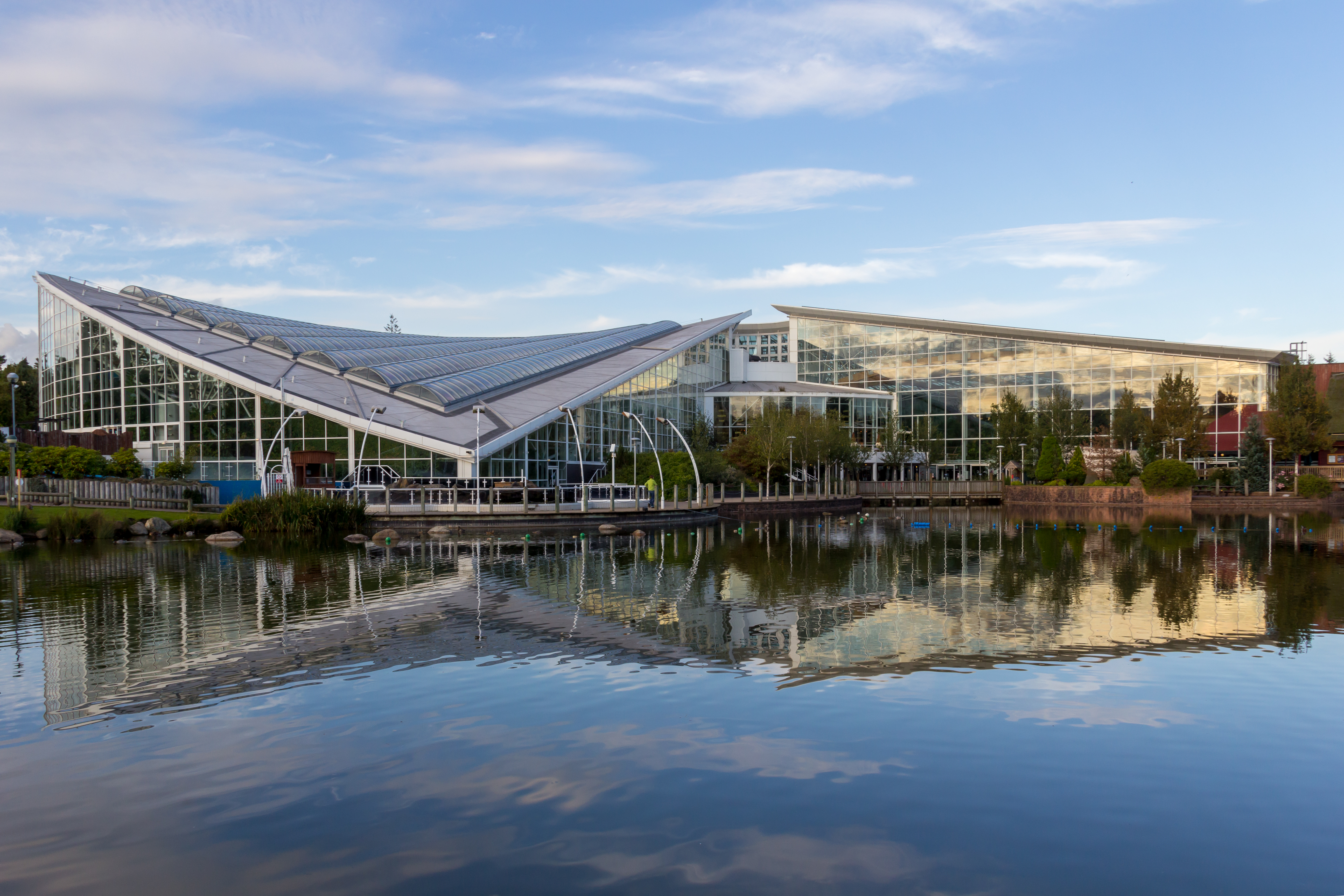 Toadstool at Oasis / Center Parcs Whinfell Forest